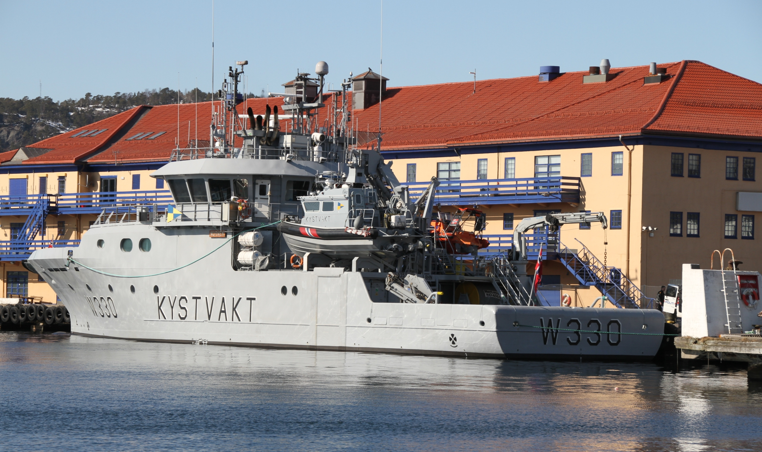 Image of the norwegian Coast Guard ship KV "Nornen", at anchor in Kristiansand (Norway)